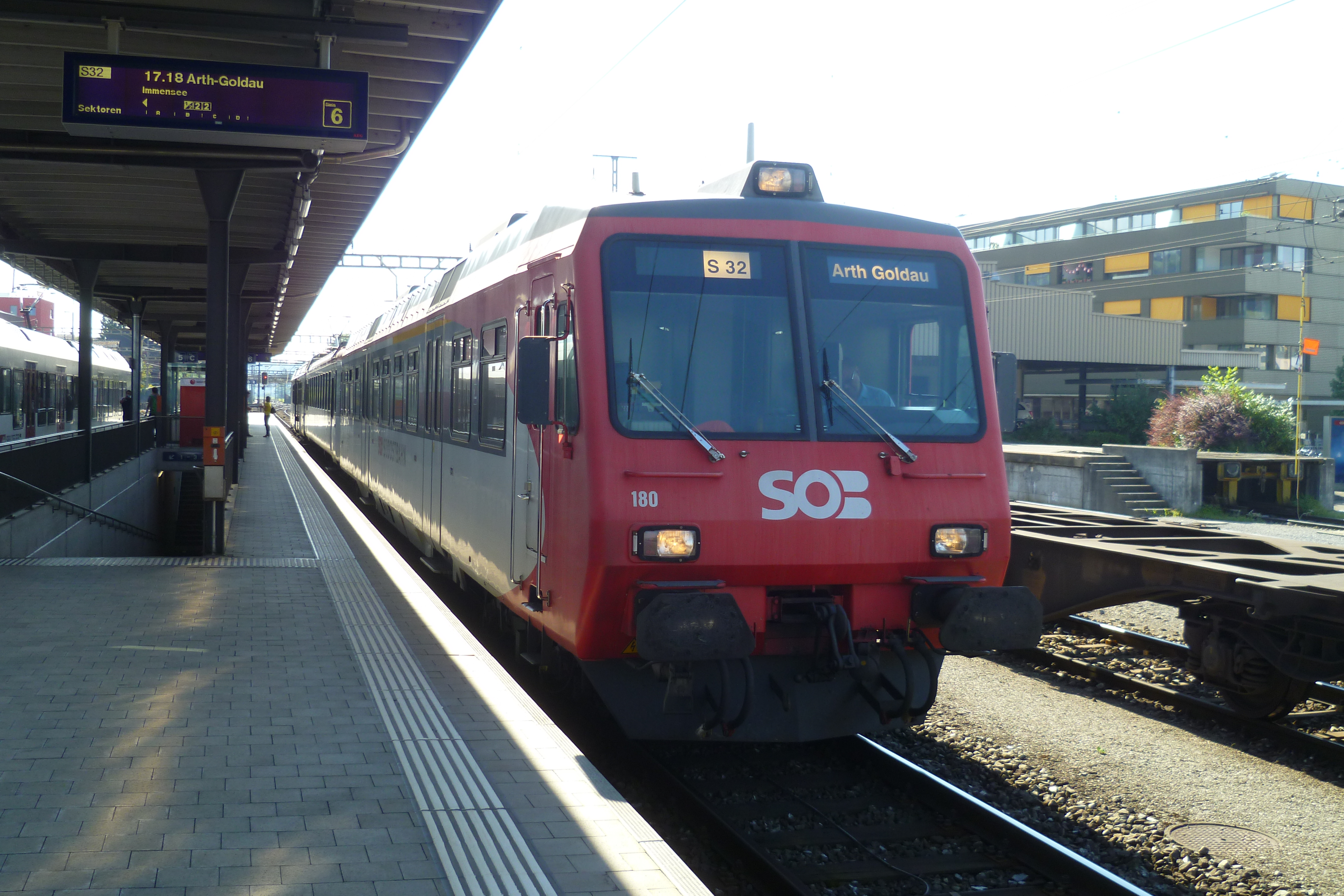 Rotkreuz train stationSOB Abt 50 48 38-35-180-8 heading S 32 suburban train Rotkreuz — Arth-GoldauS32 22963 departure from Rotkreuz at 5:18 pm